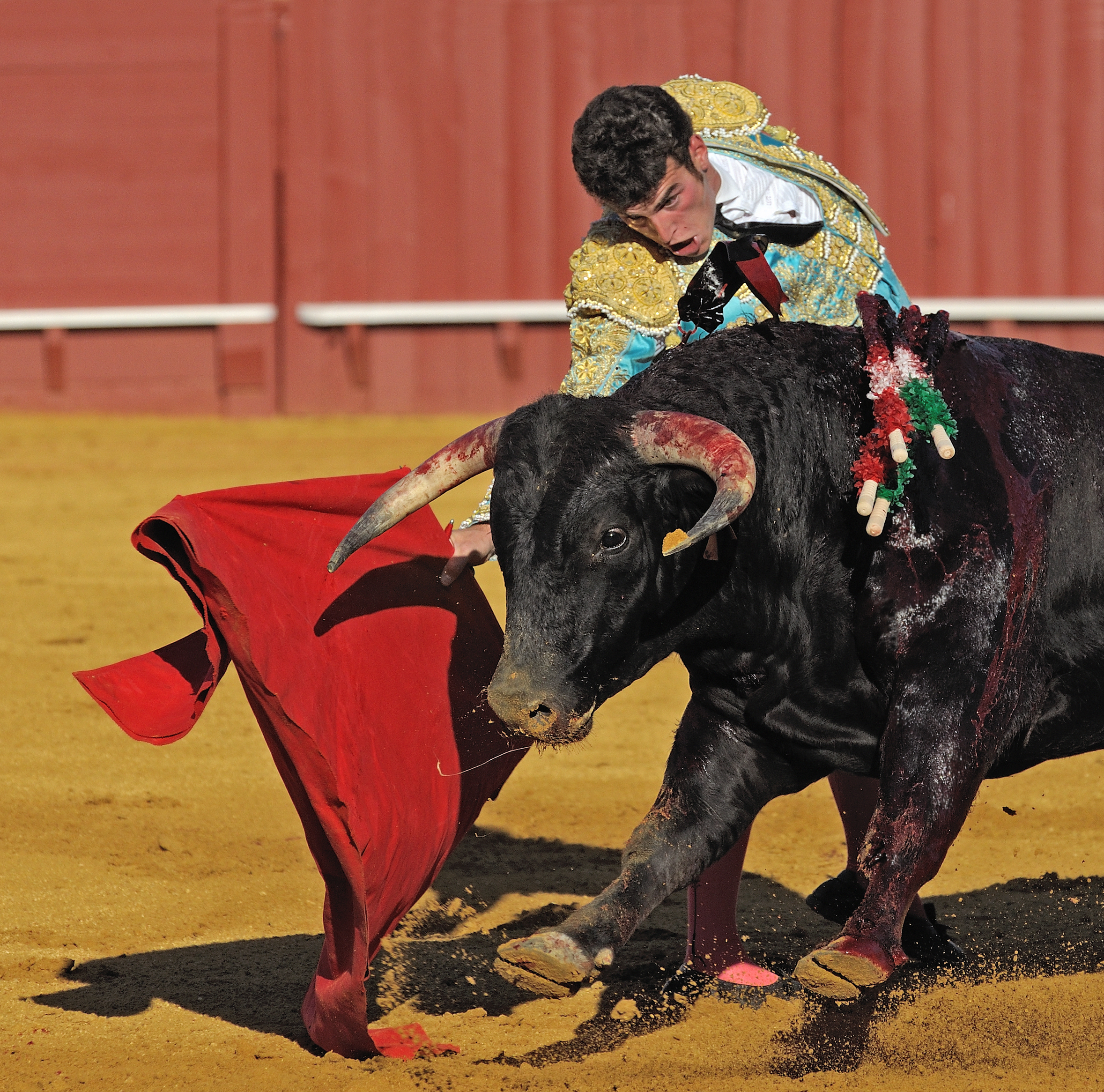 El Derechazo. Plaza De Toros De La Maestranza. Seville, Spain